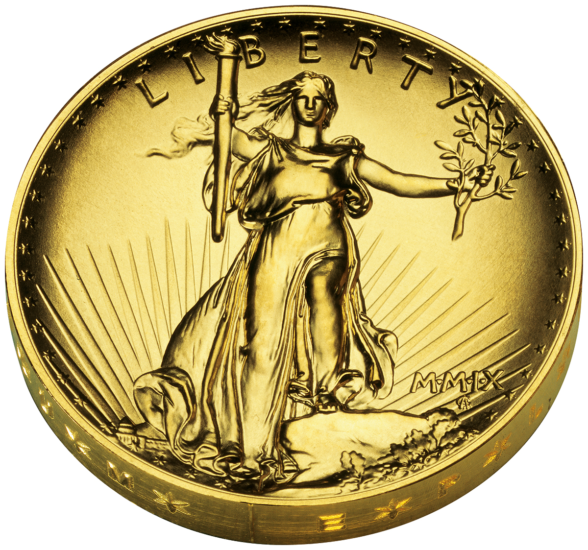 United States Mint image of the 2009 reduced-size Saint-Gaudens twenty-dollar gold piece